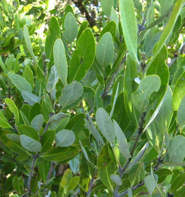 Found in Everglades National Park